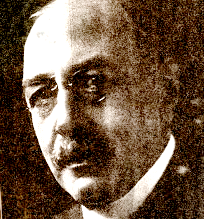 Photo of Ezra Fitch